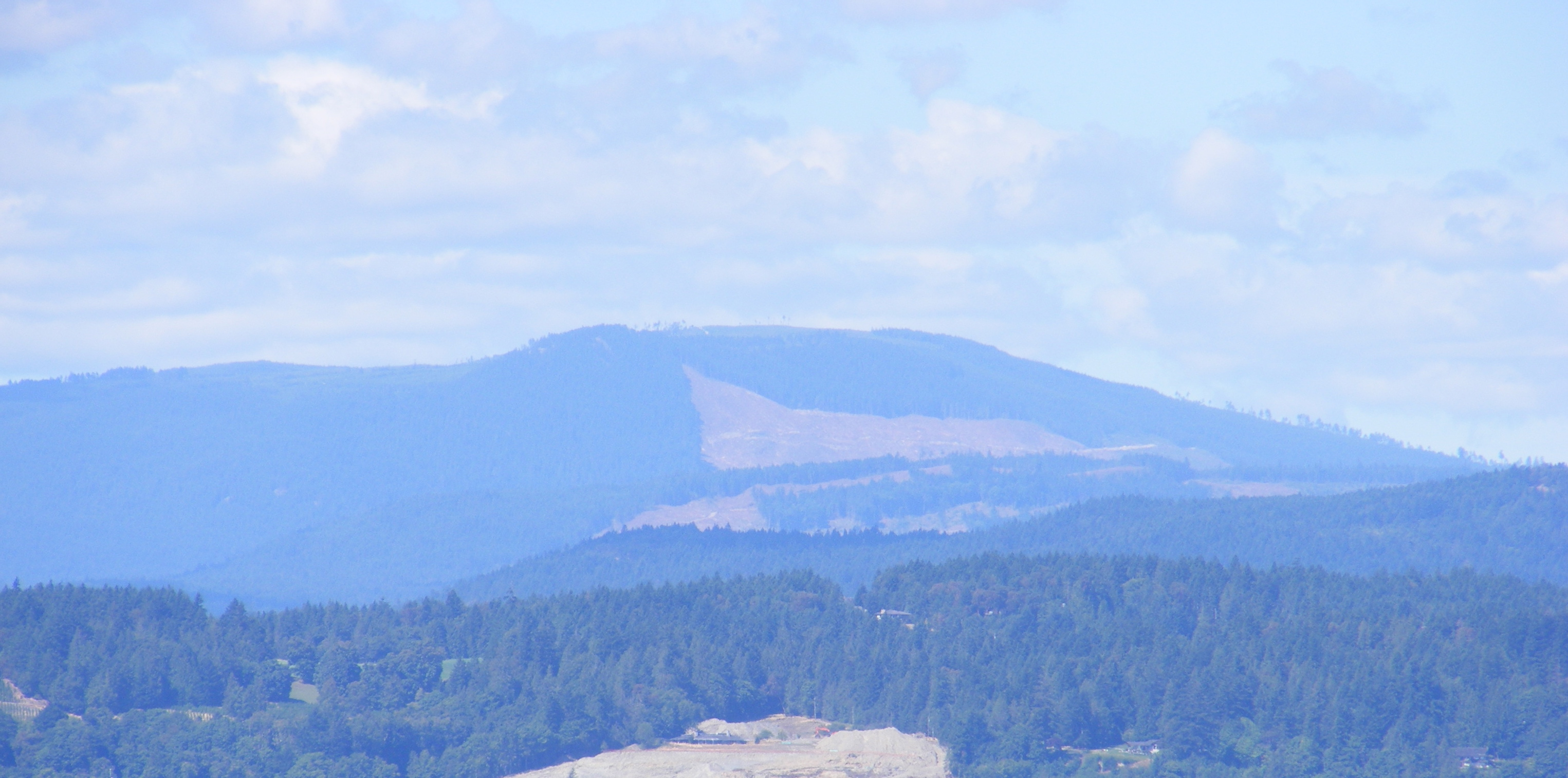 Koksilah Ridge with freshly cleared area